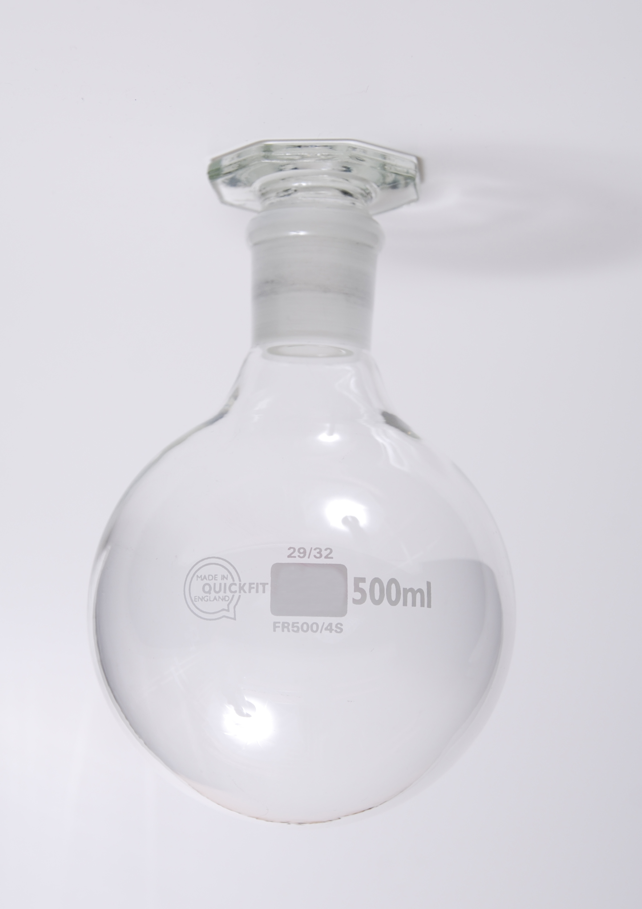 500ml round bottom flask